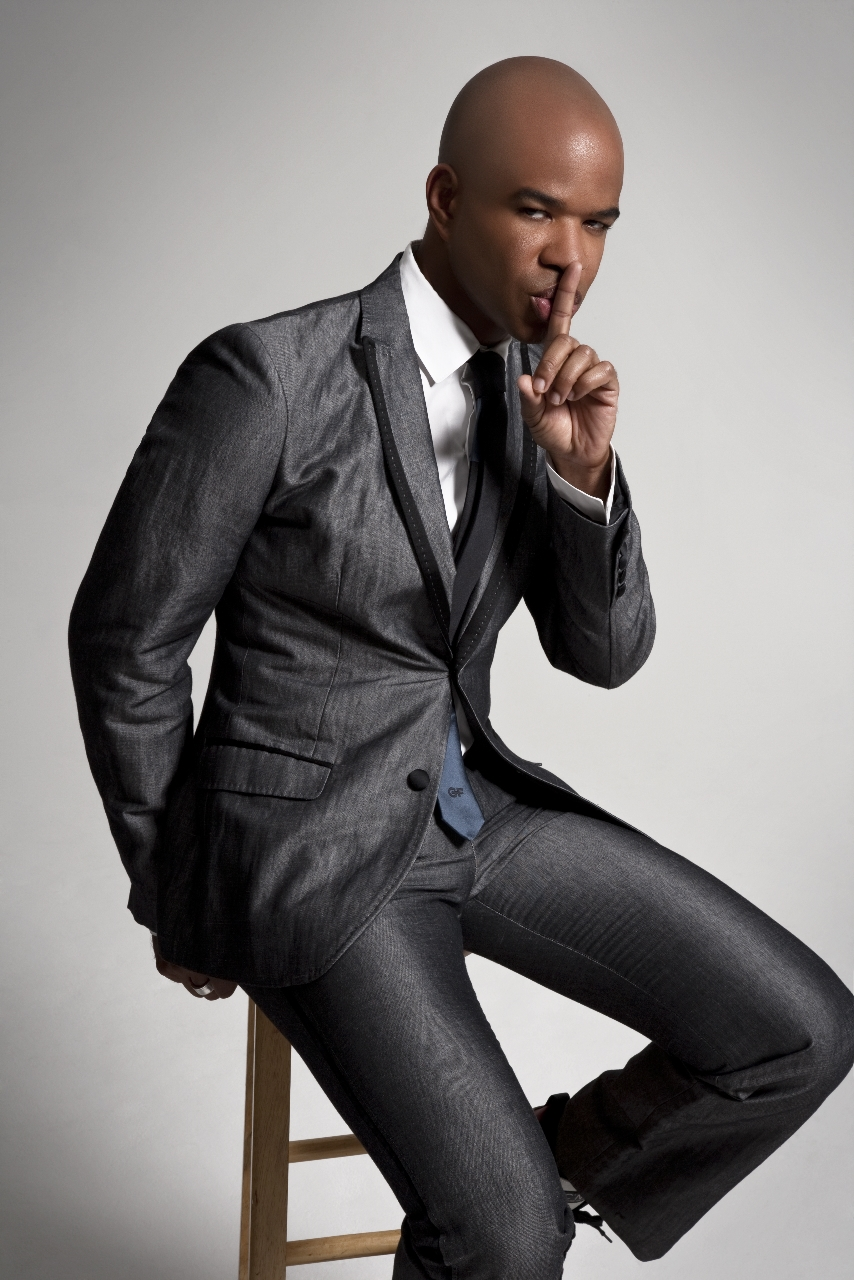 Chris Willis, a musician.